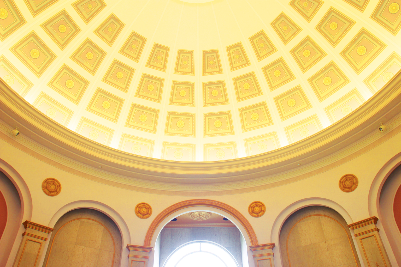 Kofuku no Kagaku. Celing of the meditation room in Happy Science Chiba Temple in Japan.